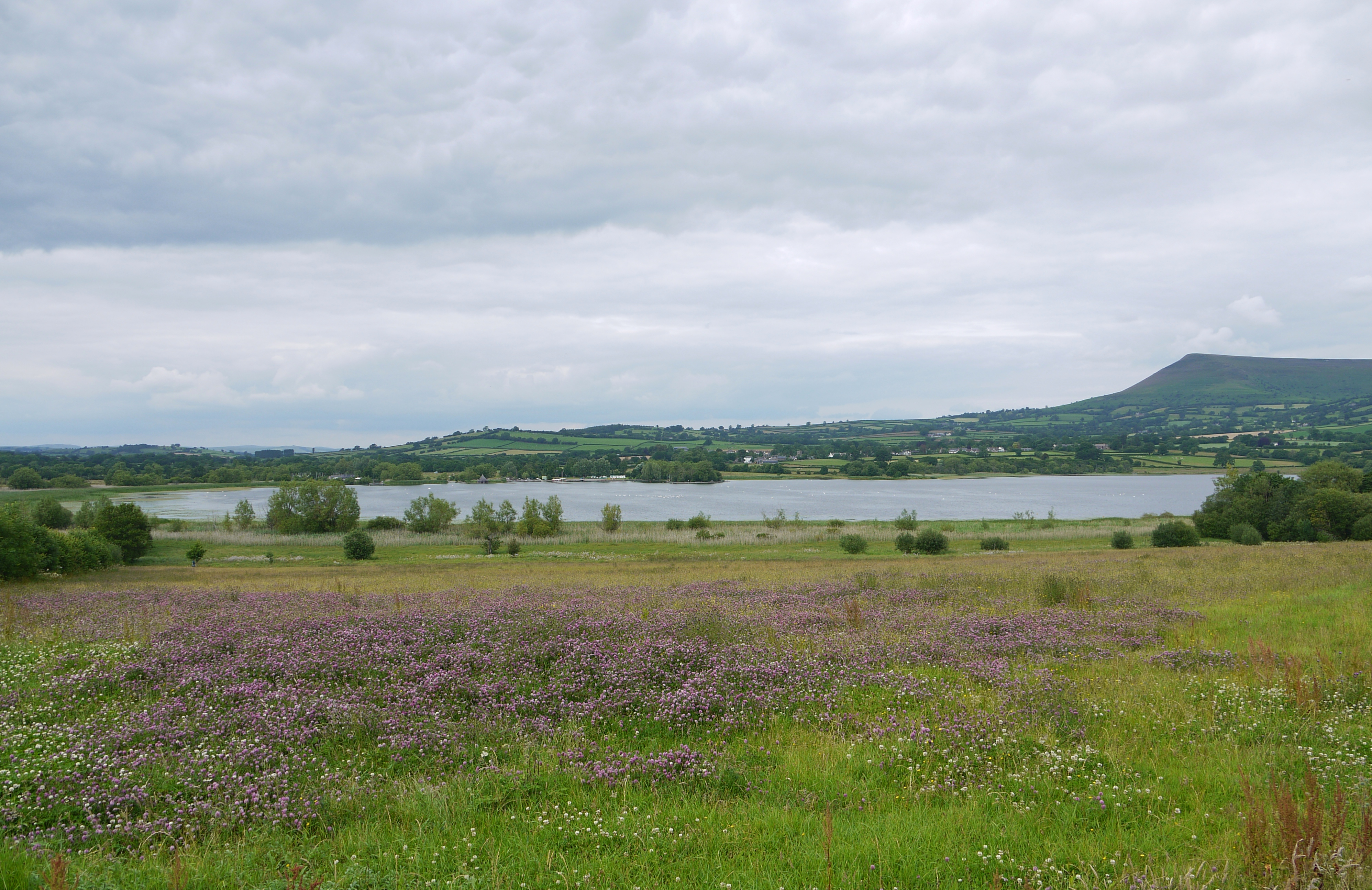 Photo of Llangorse Lake taken from the southwest